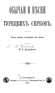 Cover page of the second edition of the book "Обычаи и песни турецких сербов"